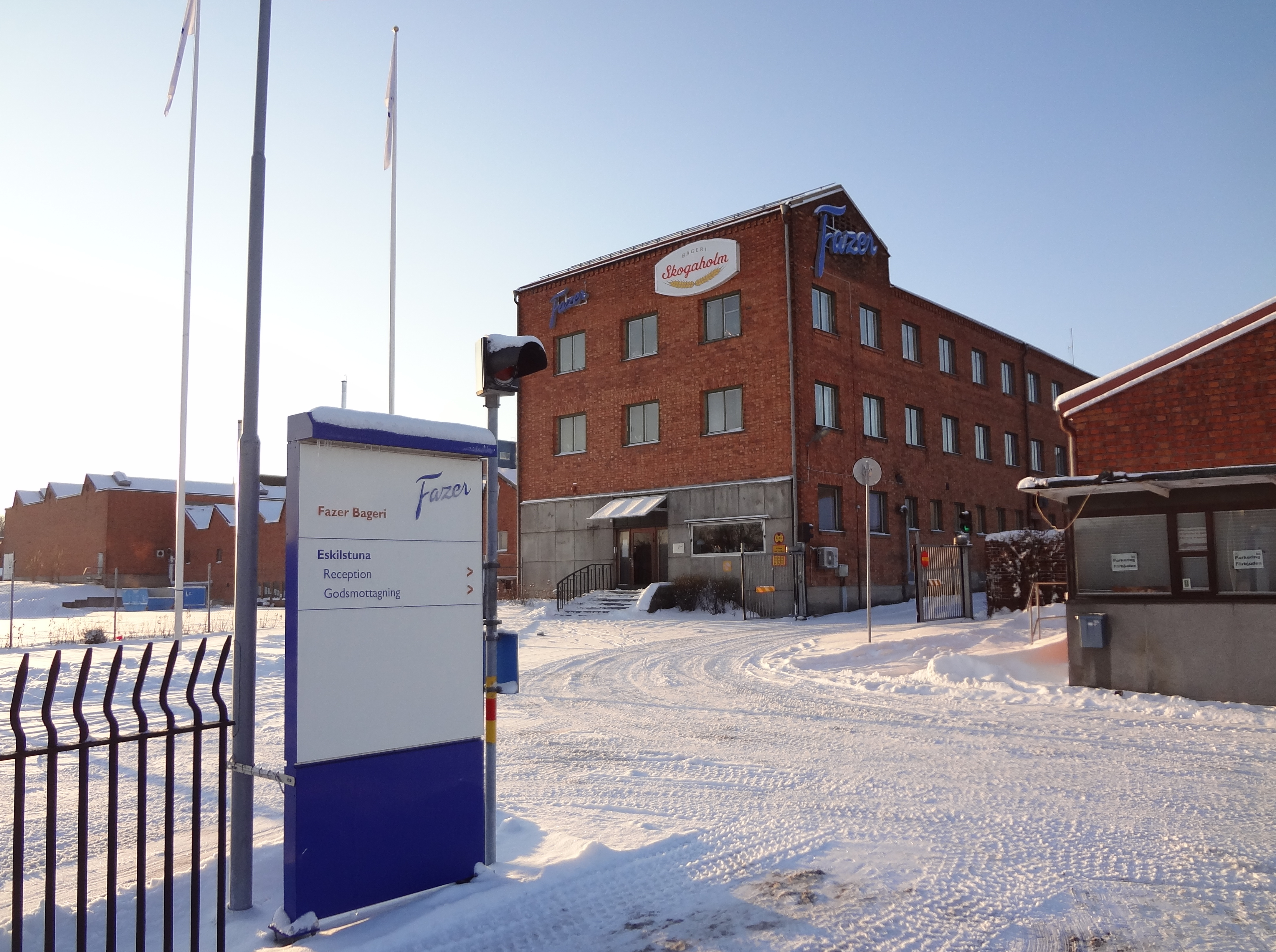 Swedish bakery "Skogaholm Fazer" in Eskilstuna, Sweden.